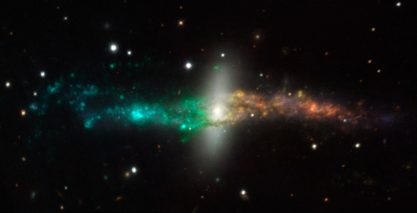 Colour composite of the polar ring galaxy NGC 4650A created from data from the MUSE instrument on ESO’s Very Large Telescope. Blue regions are approaching, relative to the centre of the galaxy, and red regions receding due to the rotation of the disc.